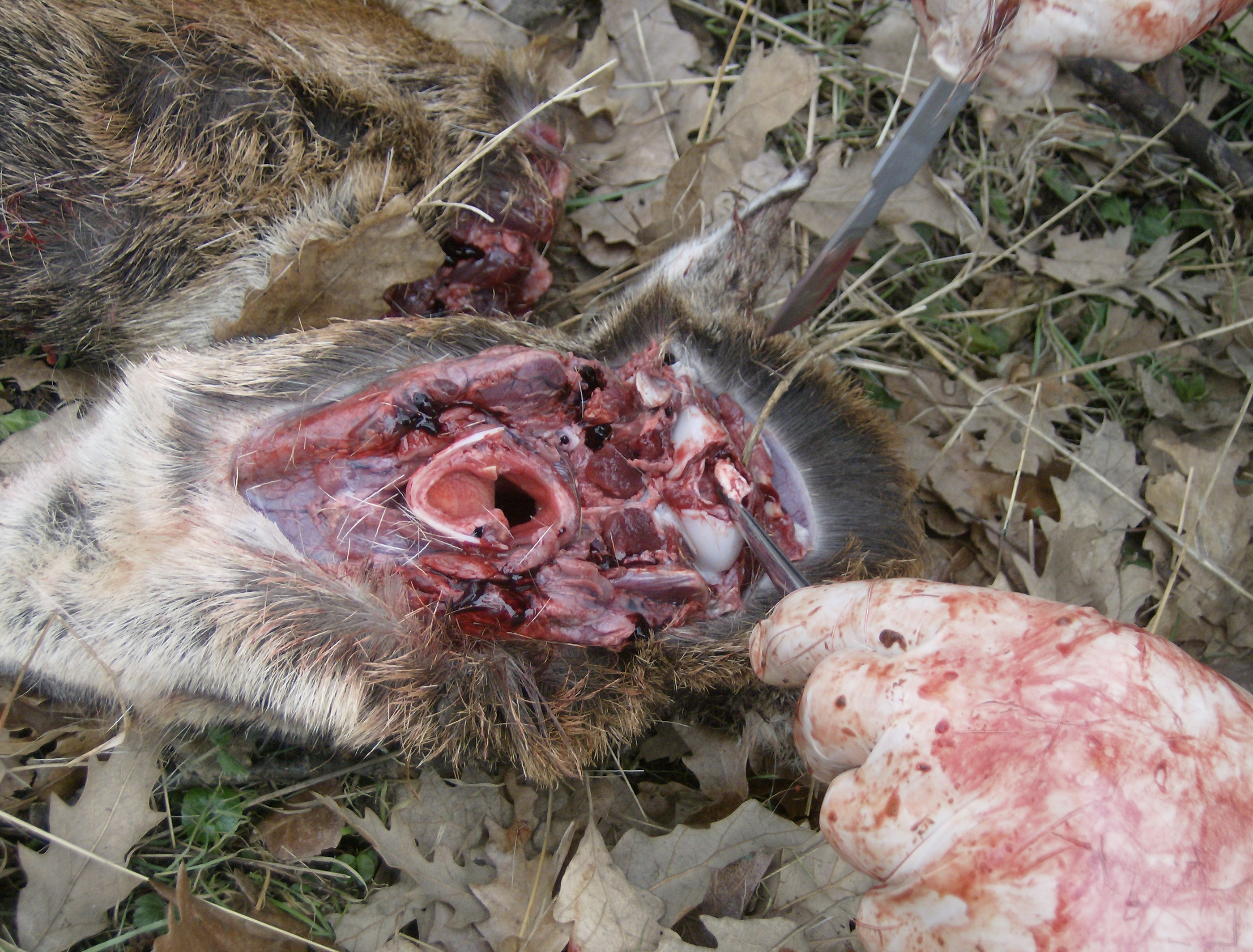 Head of muflon. Take a brain sample.